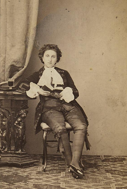 Austrian singer Anna Marek as Valentin in Offenbach's "Fortunios Lied"